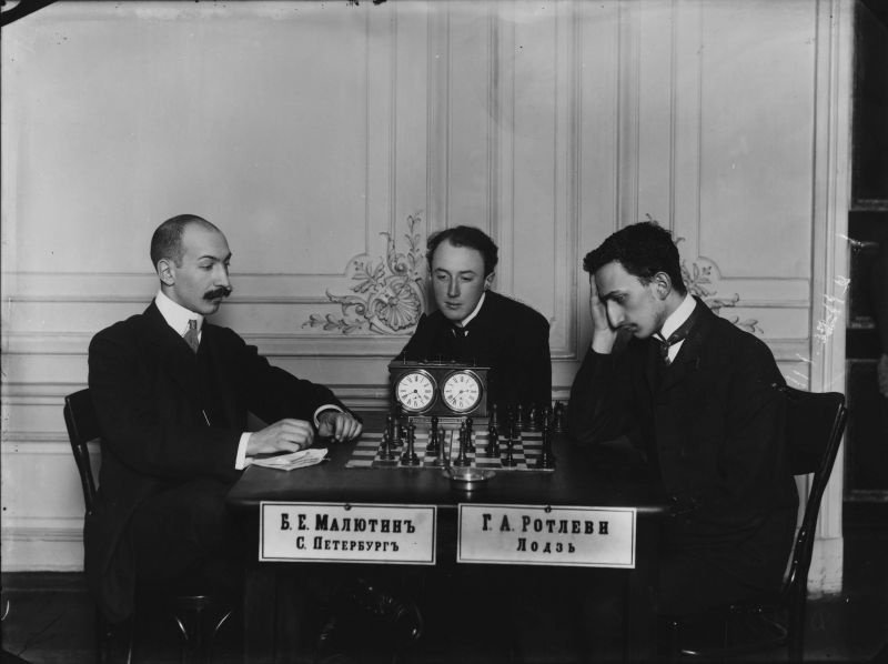 The chess master players, from the left: Boris Maliutin, Gersz Rotlewi.